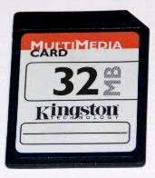 Photograph of Kingston Multi Media Card 32MB